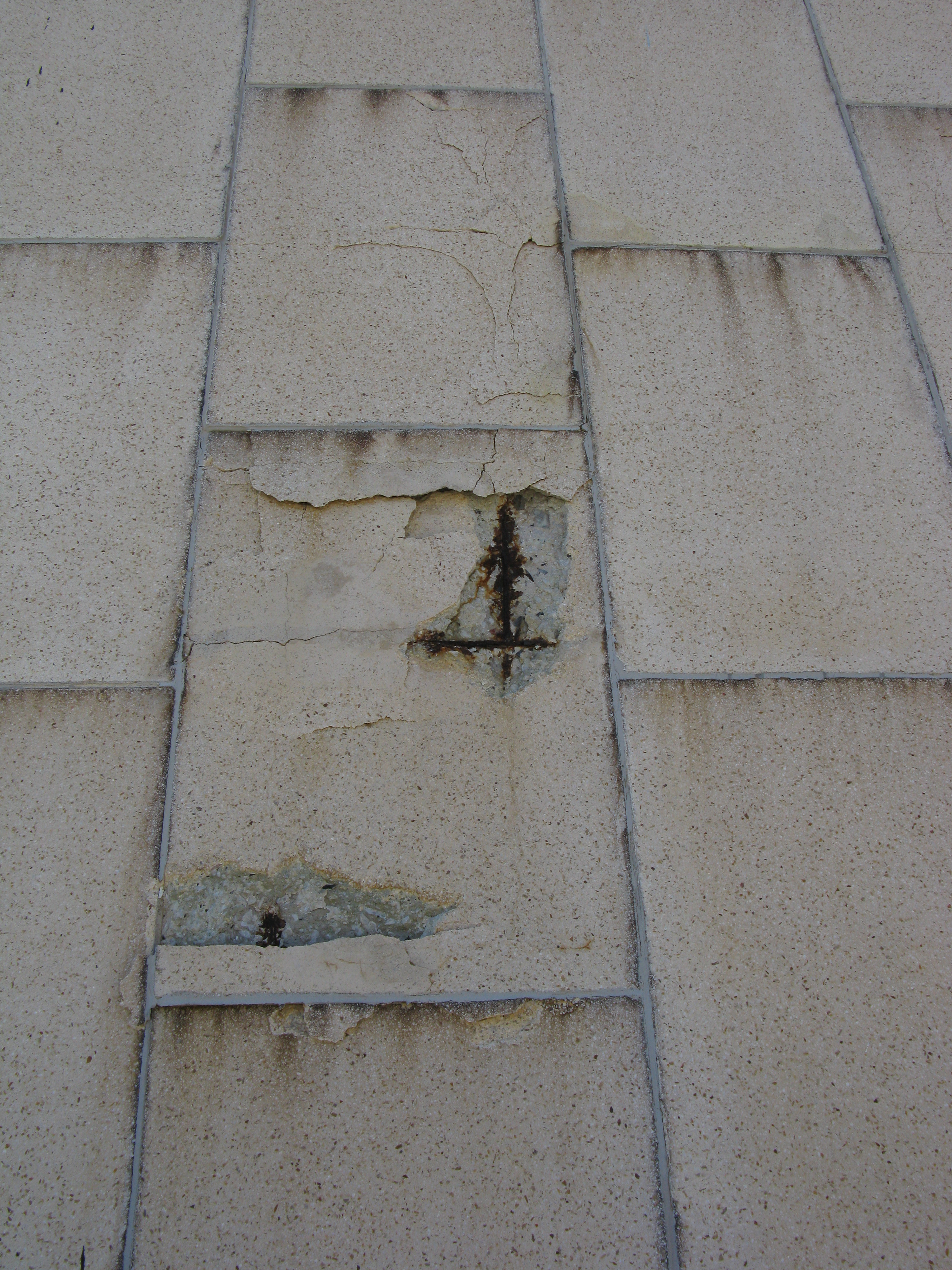 Photograph taken in grounds of Newton Park Technical High School, Port Elizabeth, South Africa